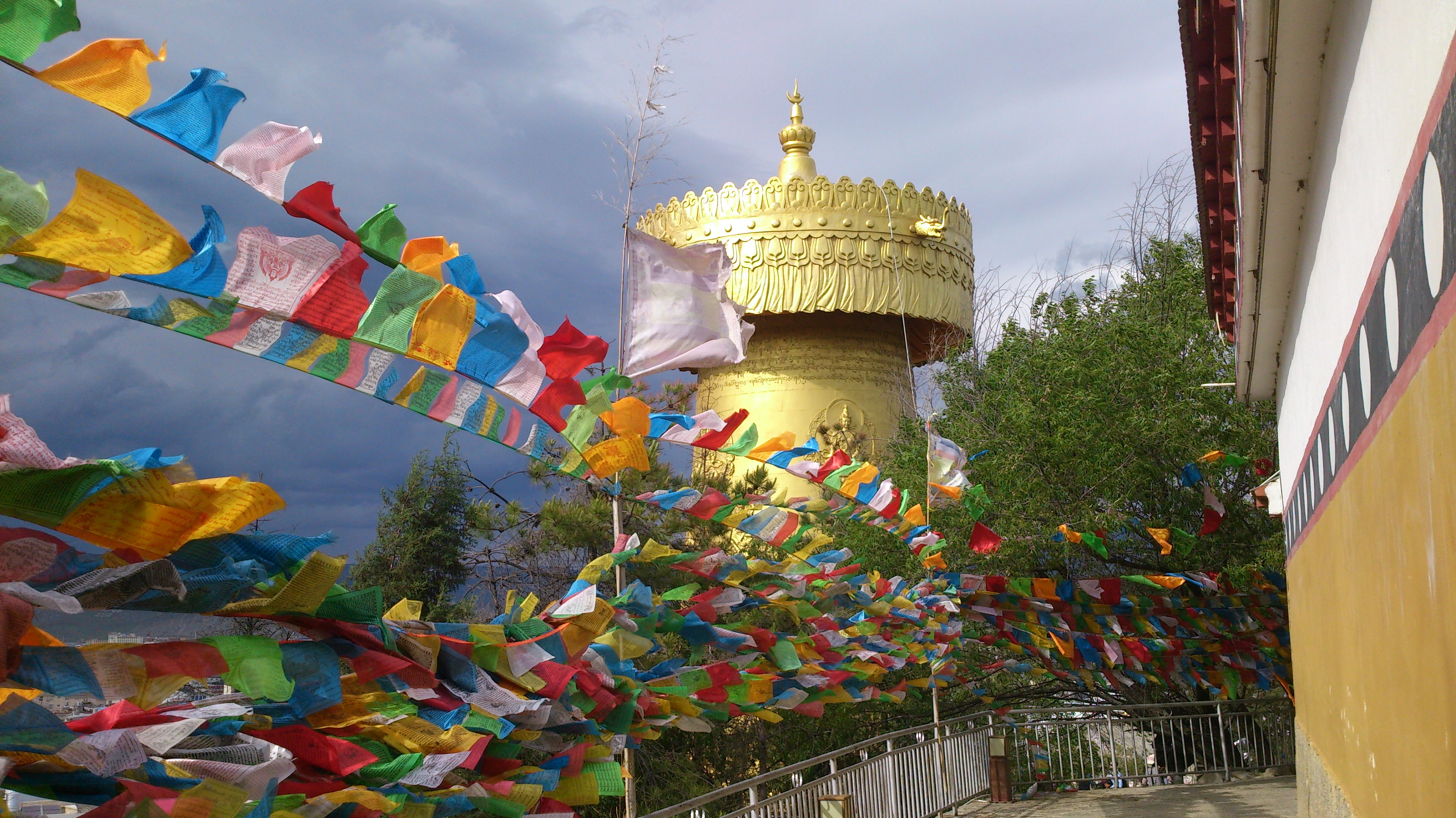 Allegedly the biggest prayer wheel of the world in Shangri-La, Yunnan, China.